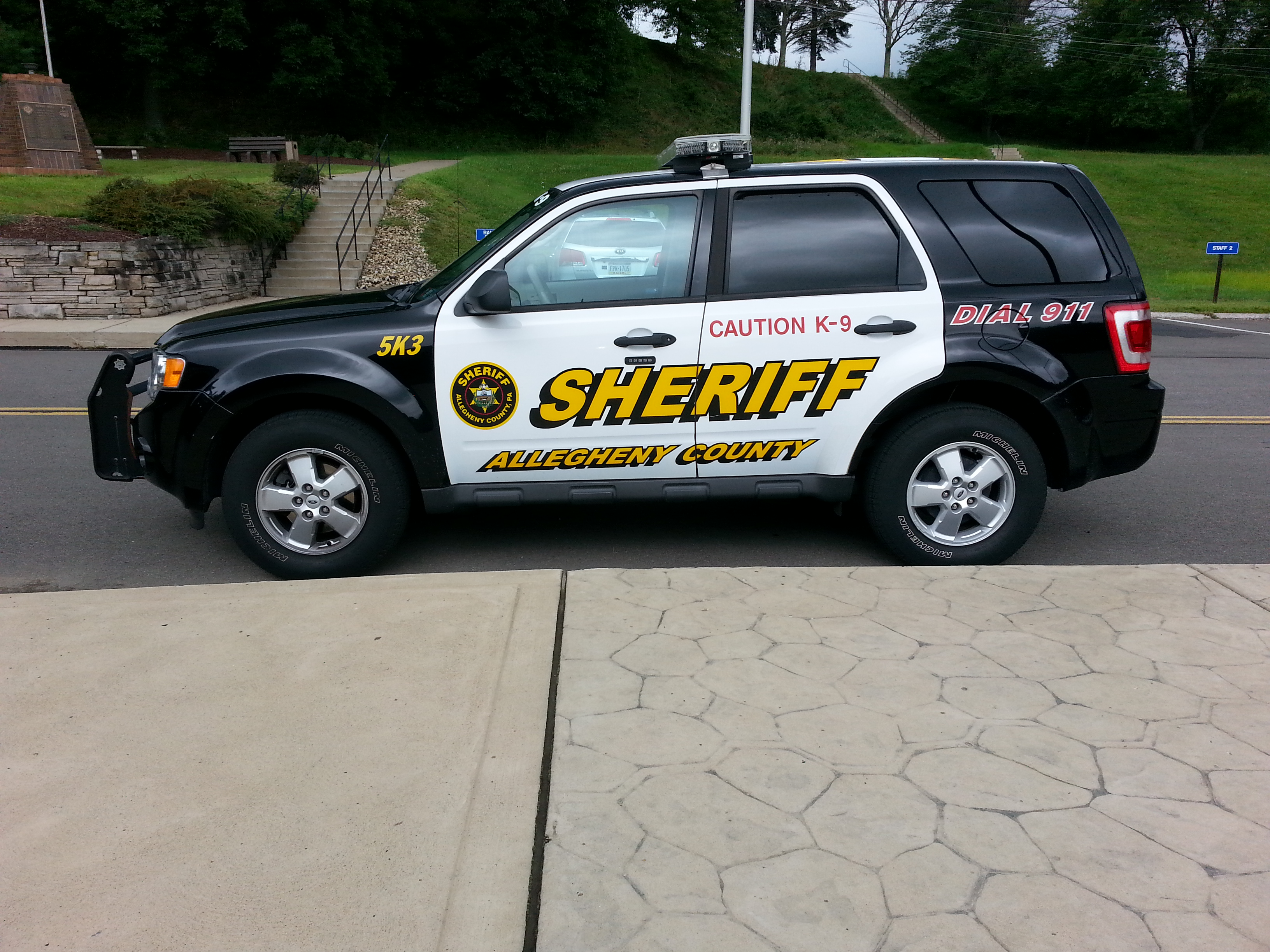 A marked 2009 Ford Escape operated by the Allegheny County Sheriff's Office as a K9 vehicle.